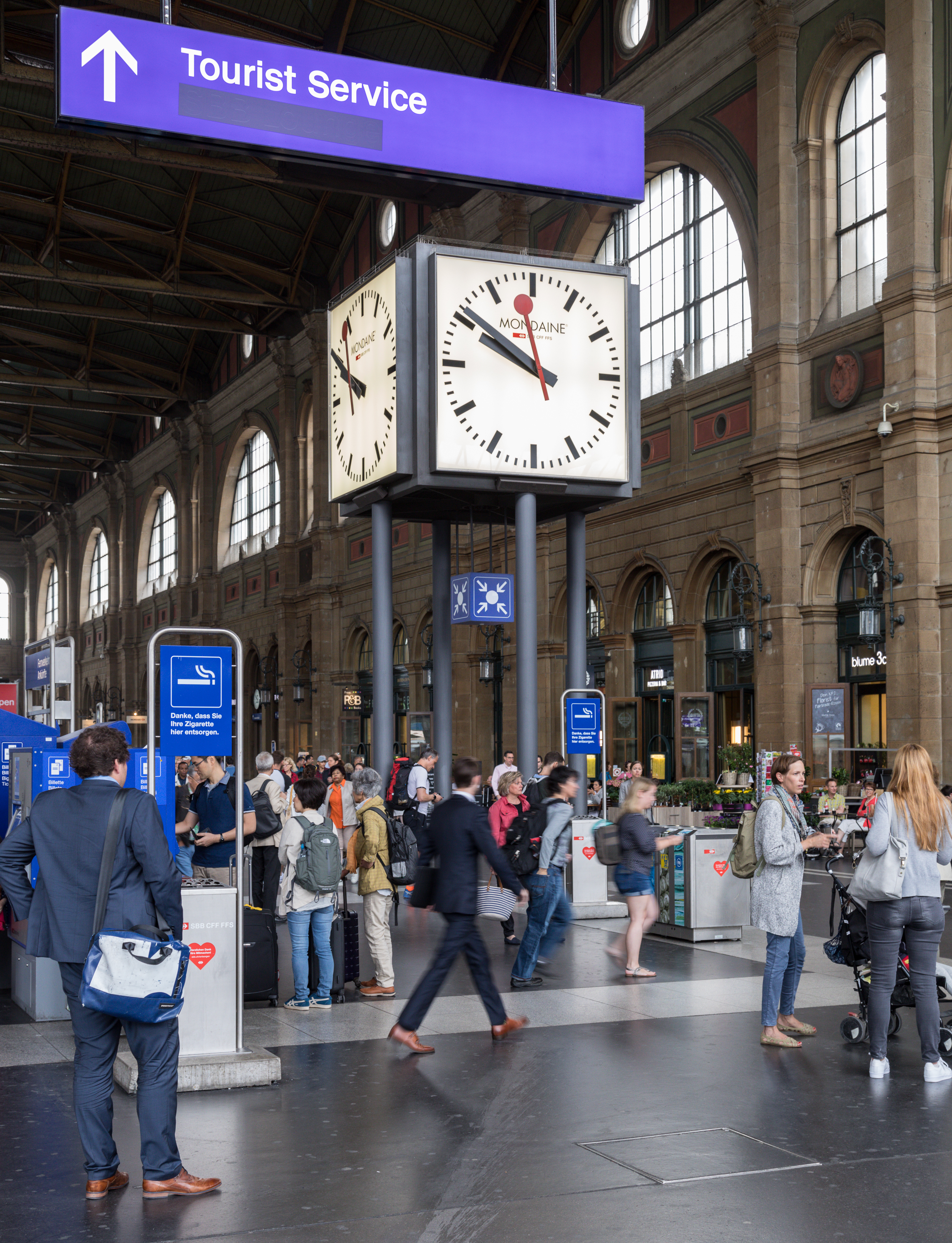 Clock and meeting point in Zurich main station